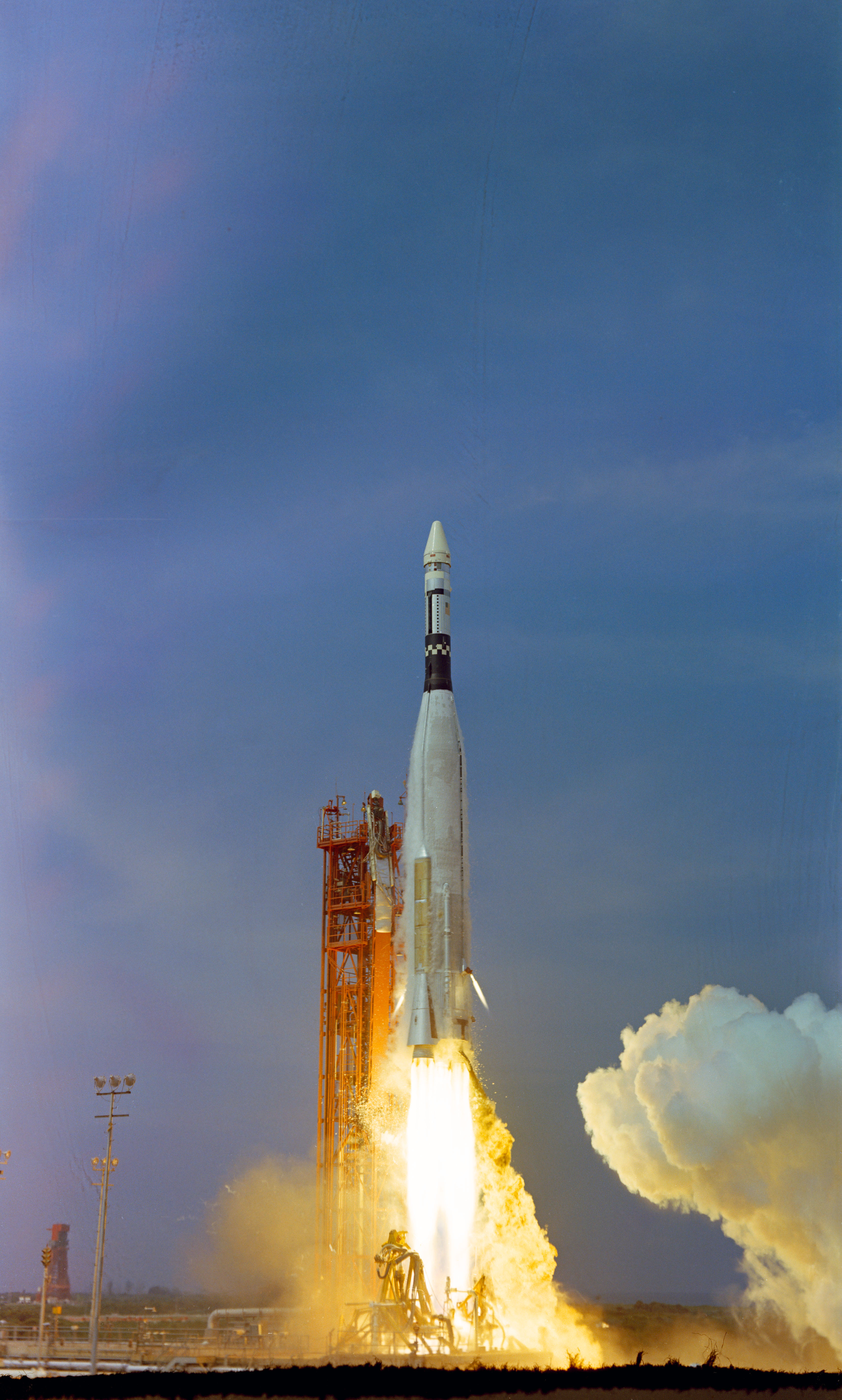 S66-42751 (18 July 1966) --- An Agena Target Docking Vehicle atop its Atlas launch vehicle was launched from the Kennedy Space Center's Launch Complex 14 at 3:39 p.m. (EST), July 18, 1966. The Gemini-10 liftoff followed the Agena liftoff by 101 minutes. The Agena served as a rendezvous and docking vehicle for the Gemini-10 spacecraft.